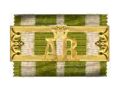 Dienstauszeichnung IIer Klasse der Landwehr Sachsen